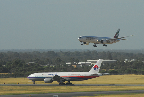 A Boeing 777 of Emirates landing at Perth International Airport, Australia, while another 777 operated by Malaysia Airlines waits to enter the runway for take-off.